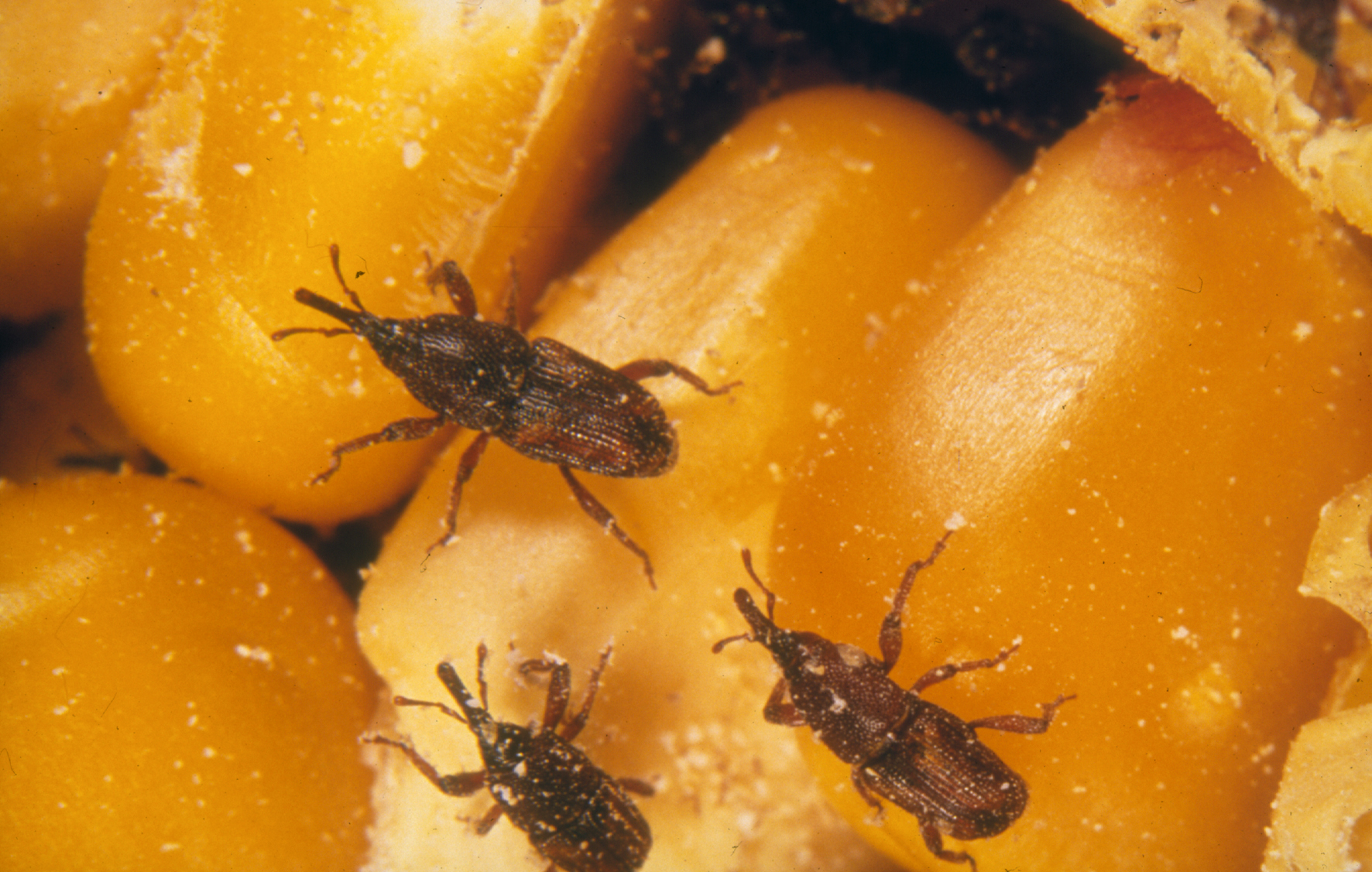 Sitophilus oryzae is a pest affecting cereal grains and solid cereal products (eg pasta), as well as stored pulses.